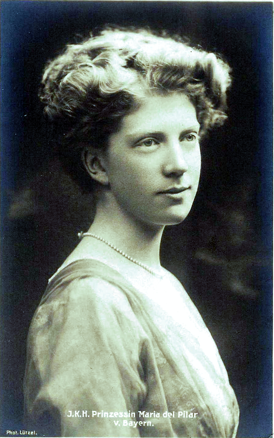 Princess Pilar of Bavaria (1891-1987)